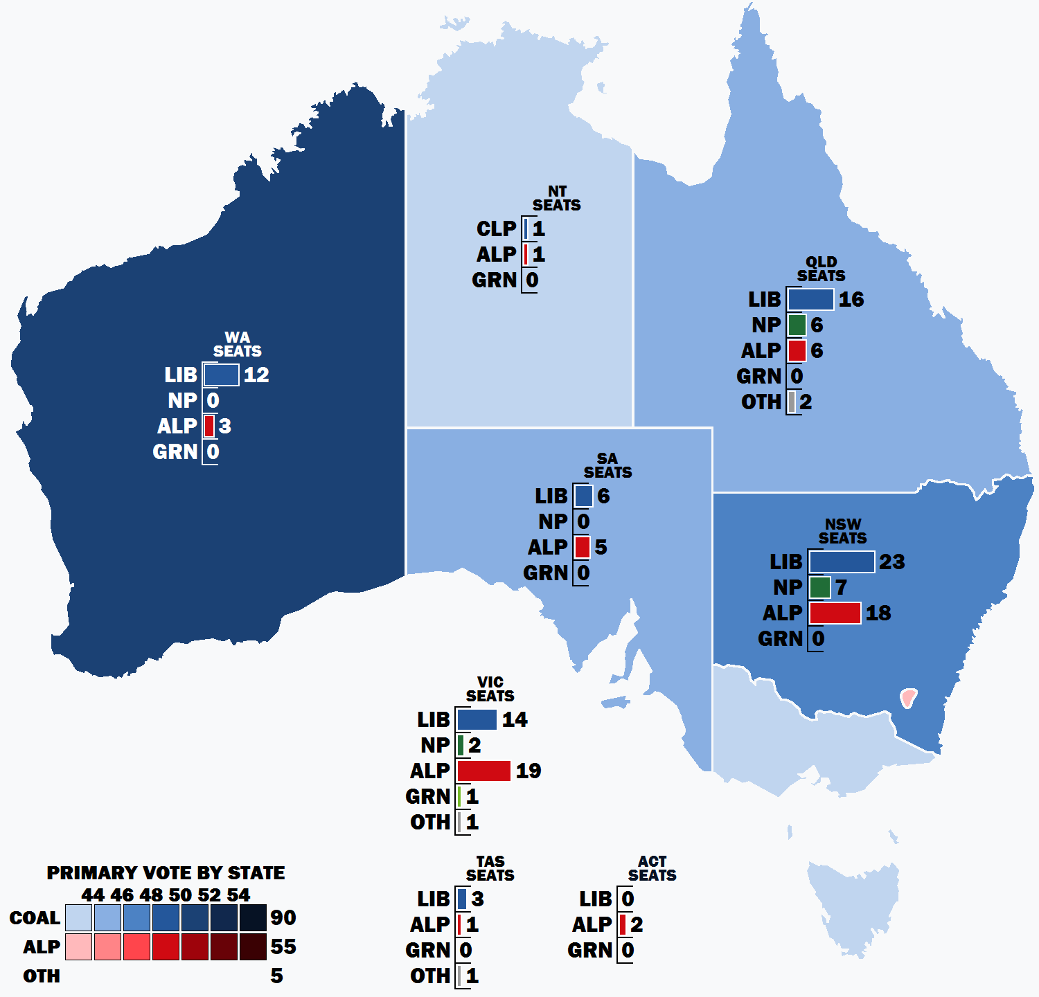 Result of the primary vote by state and territory in the 2013 Australian federal election.